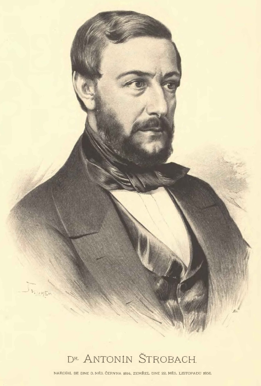 Portrait of Antonín Strobach (Štrobach) (1814–1856), a Czech jurist and politician, portreeve (mayor) of Prague in 1848.